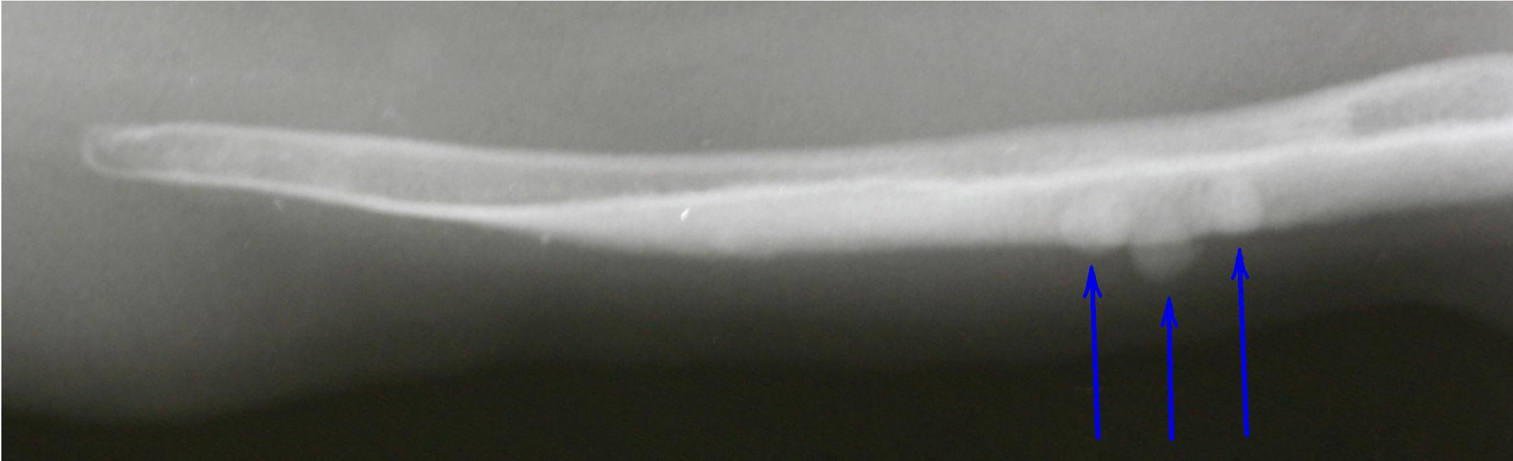 Radiographic picture of a urethral obstruction in a male dog, caused by three calculi (arrows) proximal to the baculum